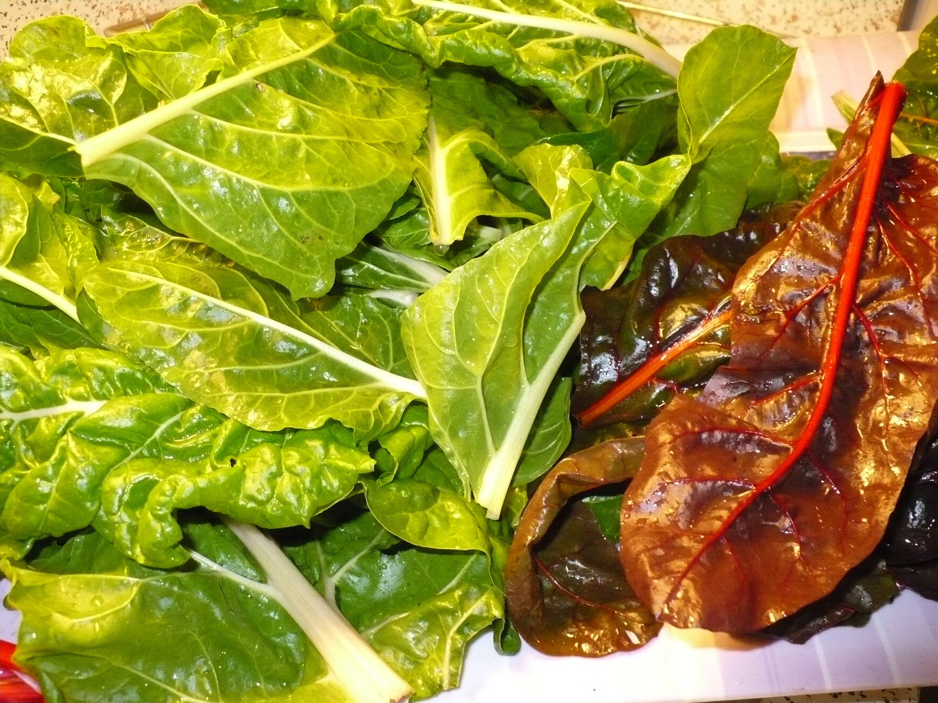 Chard leaves